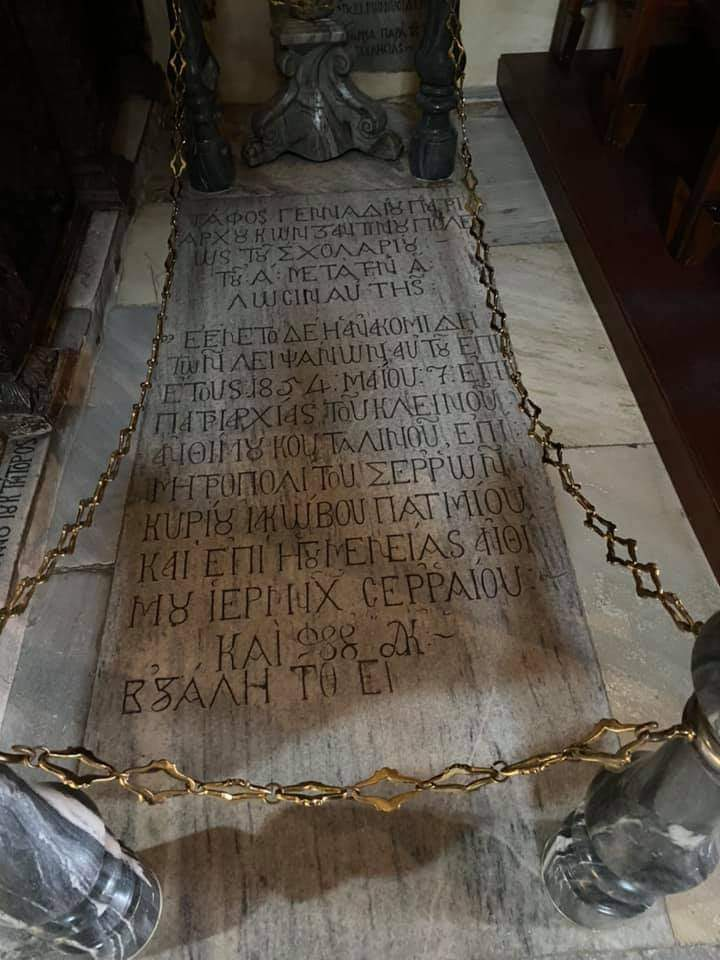 Tomb of Gennadius Scholarius, Patriarch of Constantinople, at the Monastery of Saint John the Forerunner, close to Serres